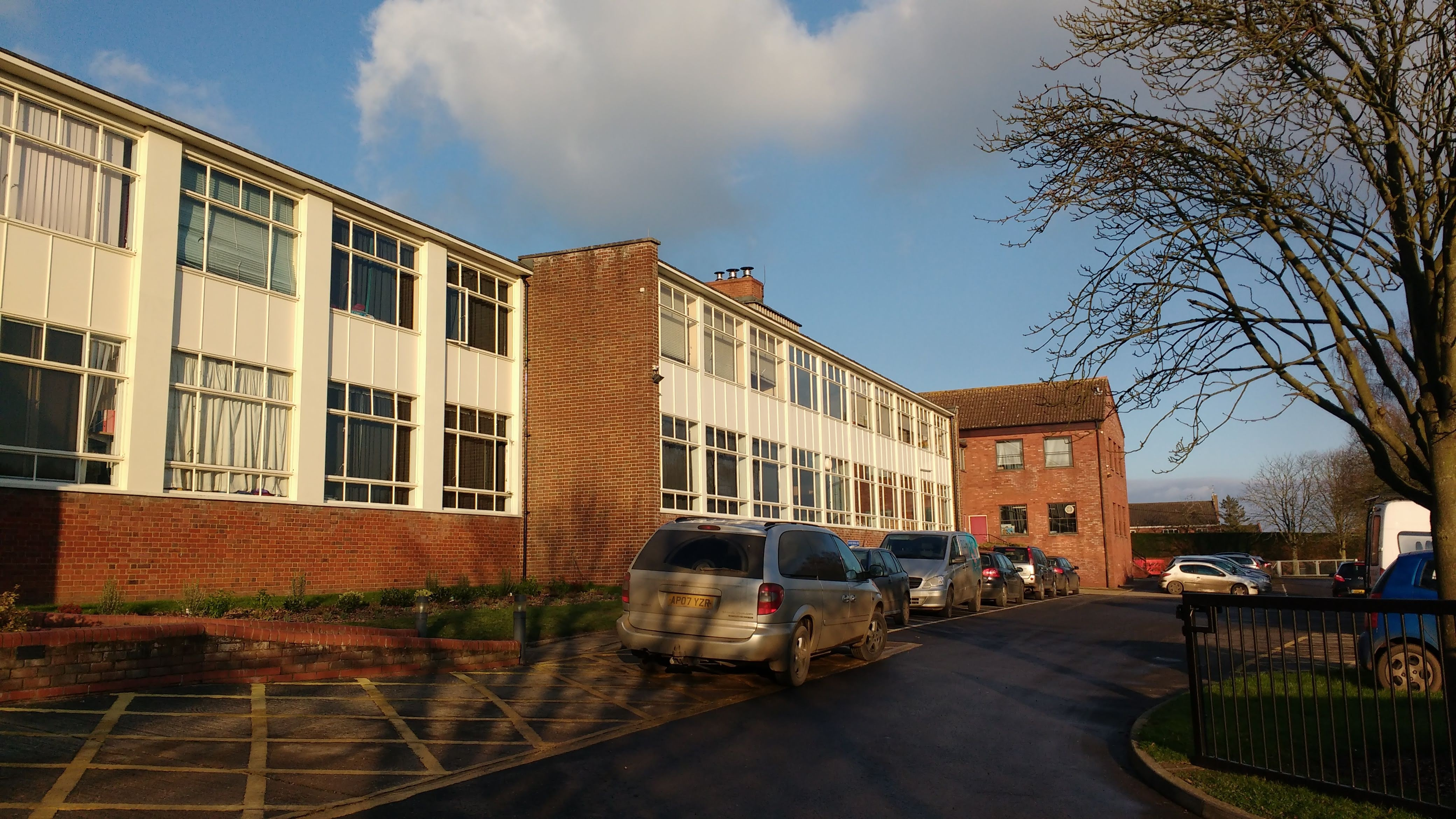 Litcham